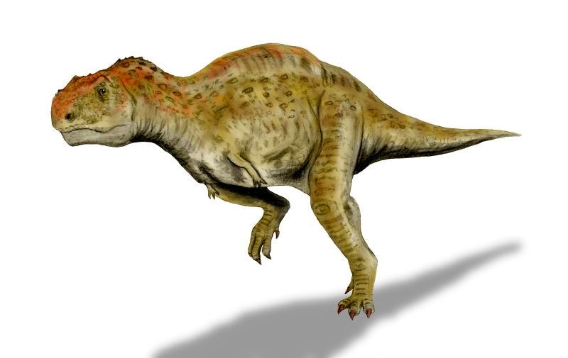 Kryptops palaias, an abelisaurid from the Early Cretaceous of Niger, the reconstruction is highly speculative due to the fragmentary nature of the fossil, after Sereno and Brusatte, 2008, pencil drawing, digital coloring